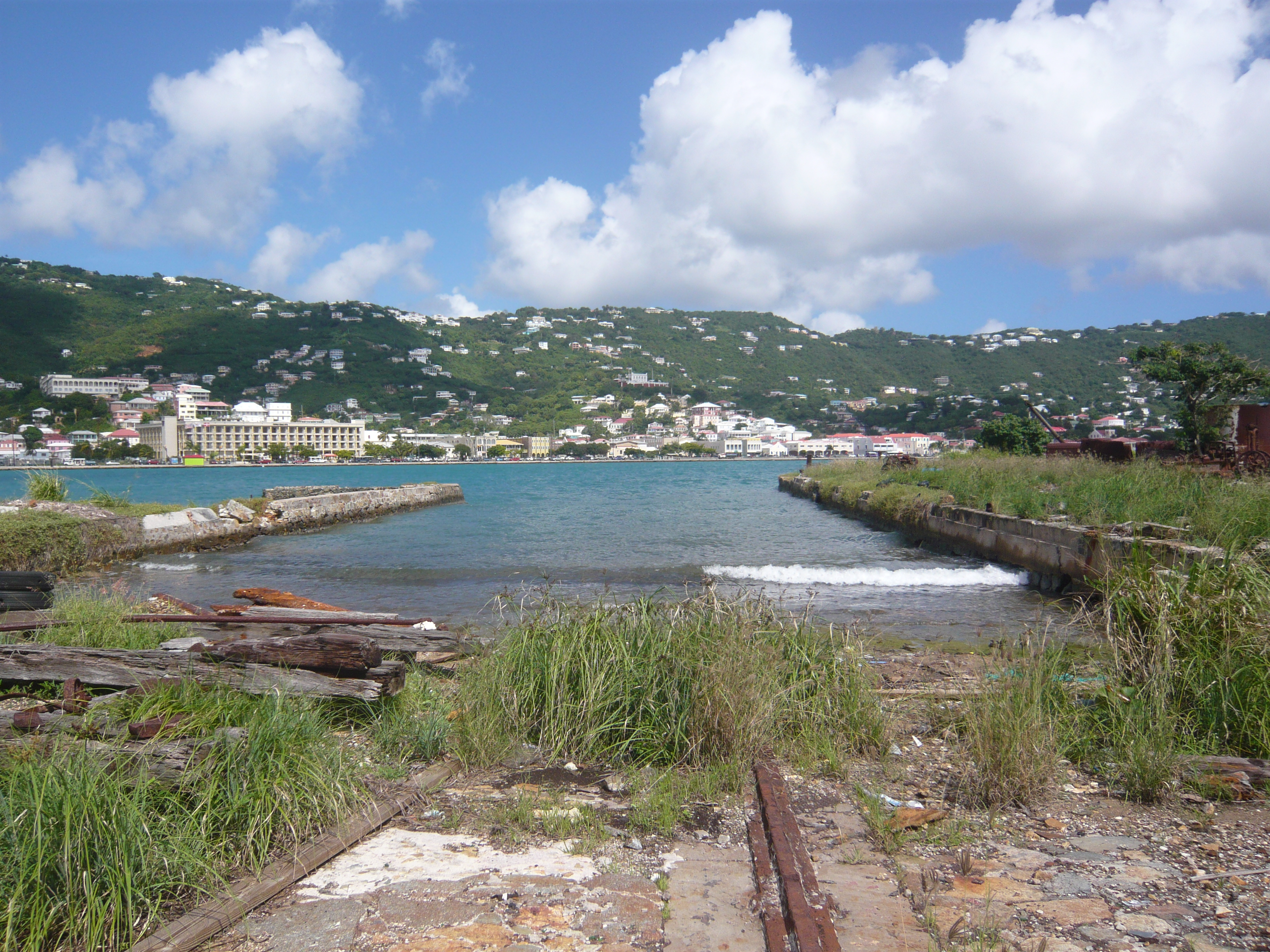 Historic Creque Marine Railway site — in the Hassel Island Historic District on Hassel Island, in the U.S. Virgin Islands. Charlotte Amalie and St. Thomas island in backround.